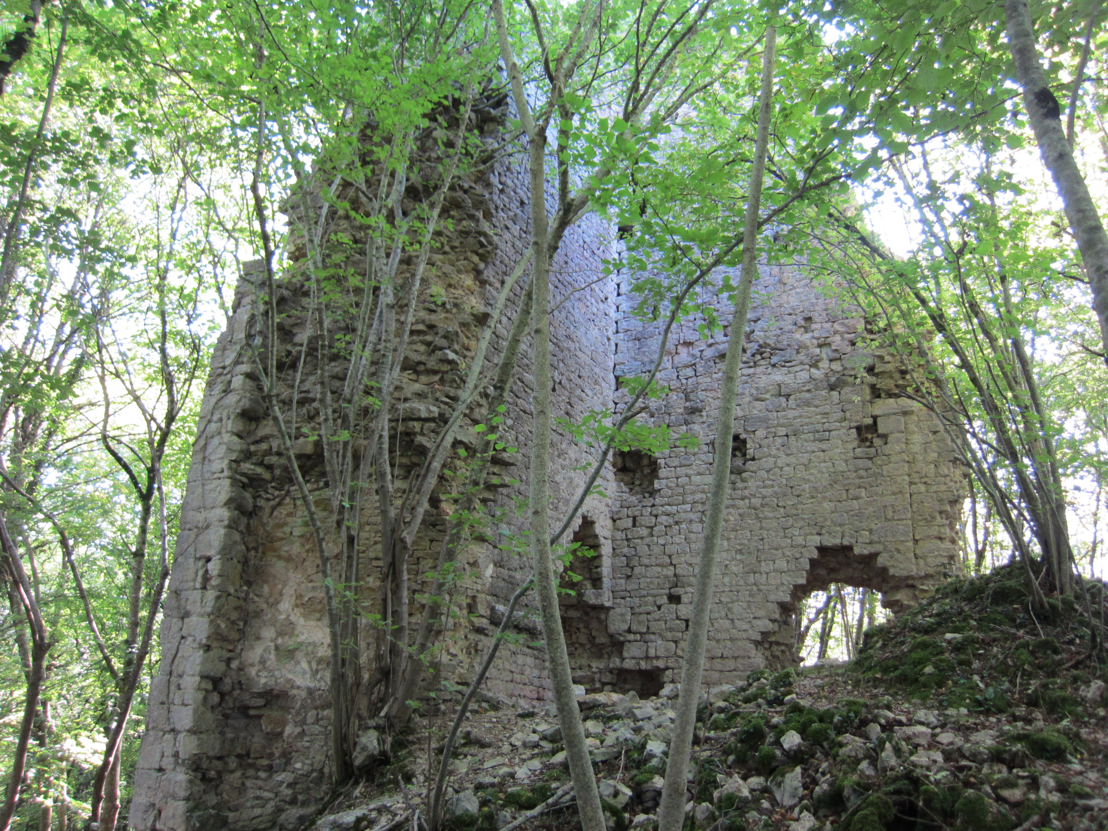 Château de Vaite near Champlive (Franche-Comté, France)